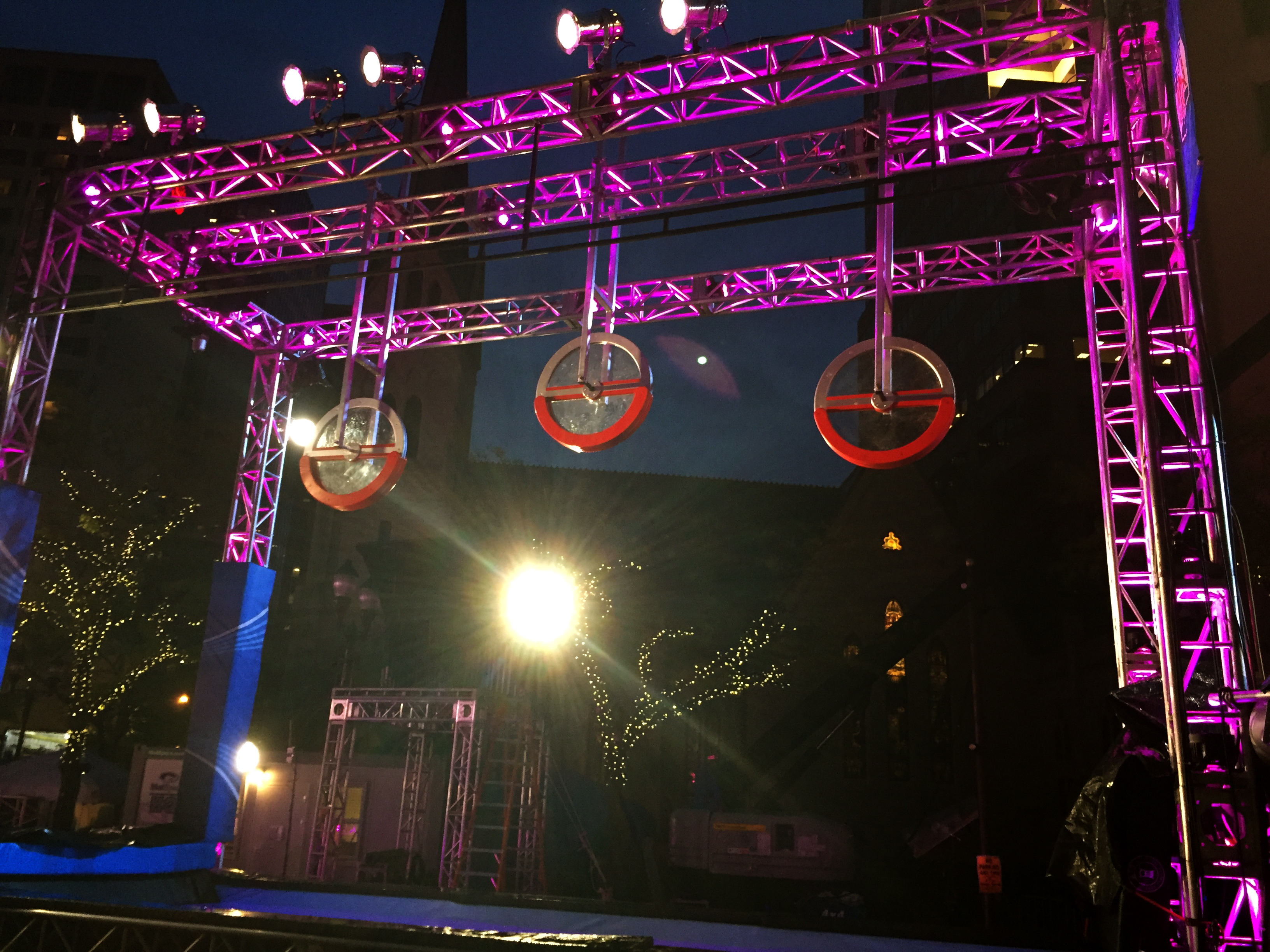 The Fly Wheels obstacle, the third obstacle encountered by athletes during the Indianapolis City Qualifier and City Finals competitions of American Ninja Warrior season 8. A little of Monument Circle can be seen in the background.